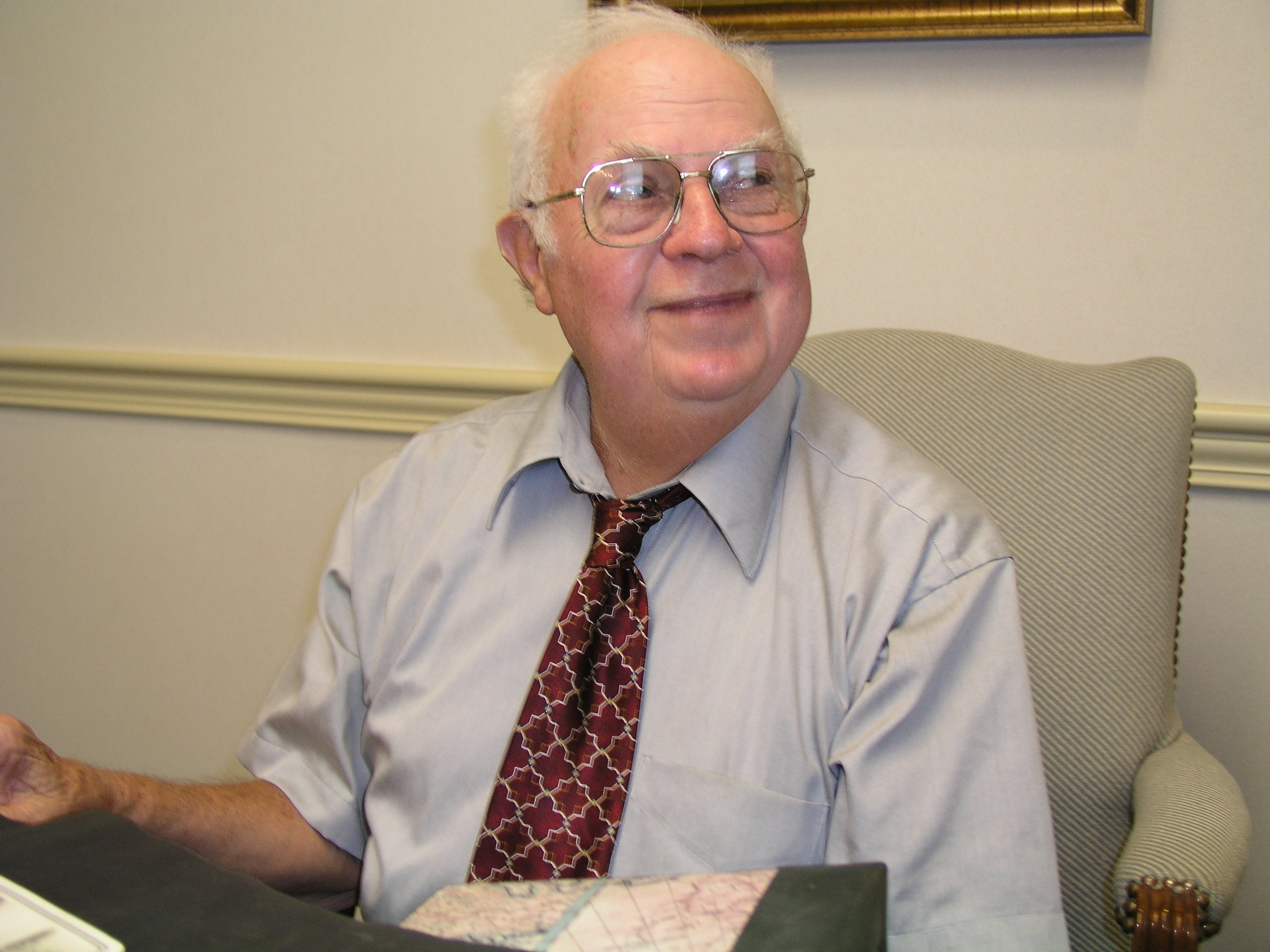 Photo of Donald Triplett, first individual diagnosed with autism